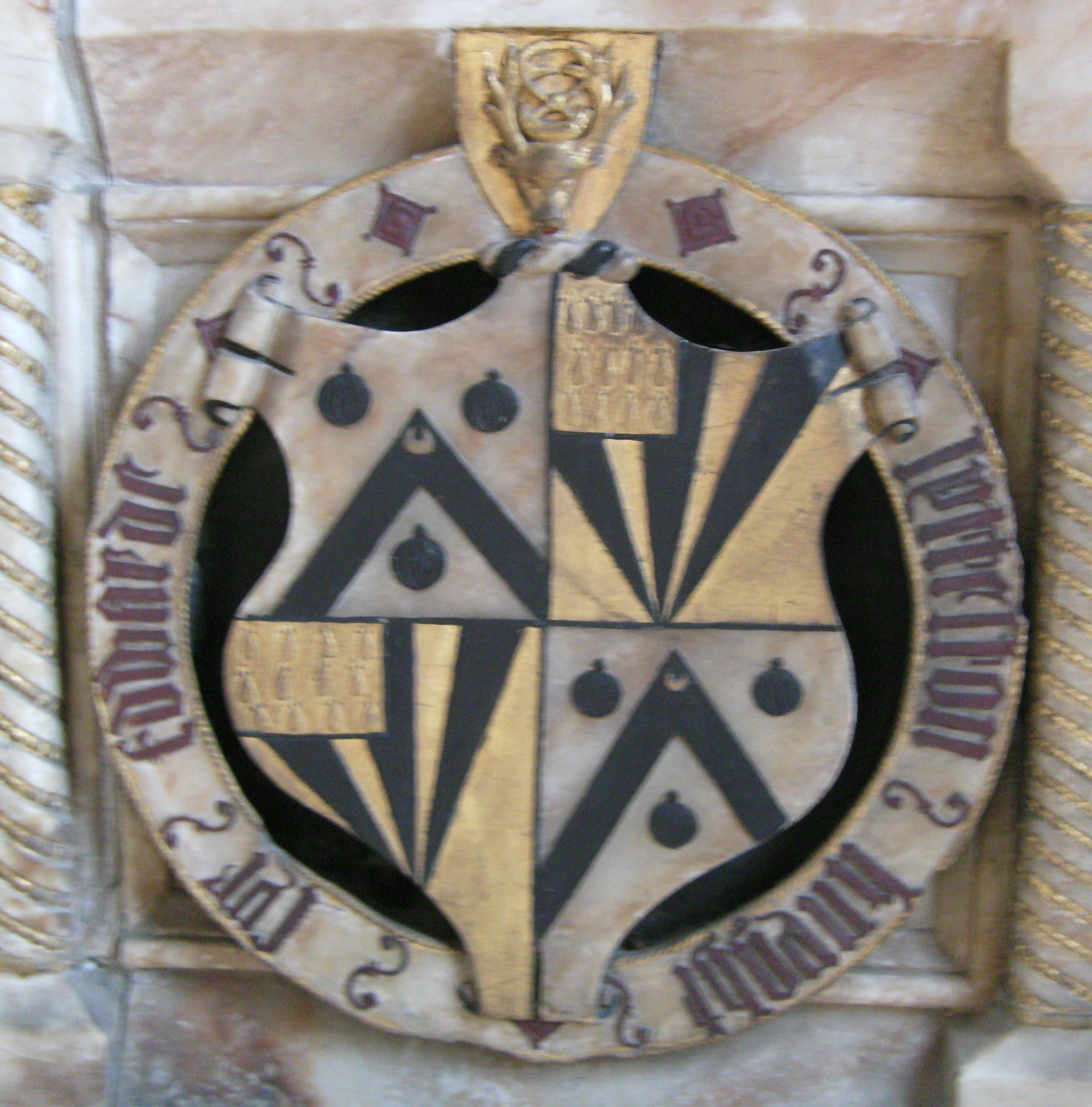 Arms Sir Edward Littleton (died 1558), on his tomb in St Michael's church, Penkridge, Staffordshire. Littleton quartering Or, three piles sable a canton ermine (Wriothesley? Basset of Drayton?) suggsts Wriothesley